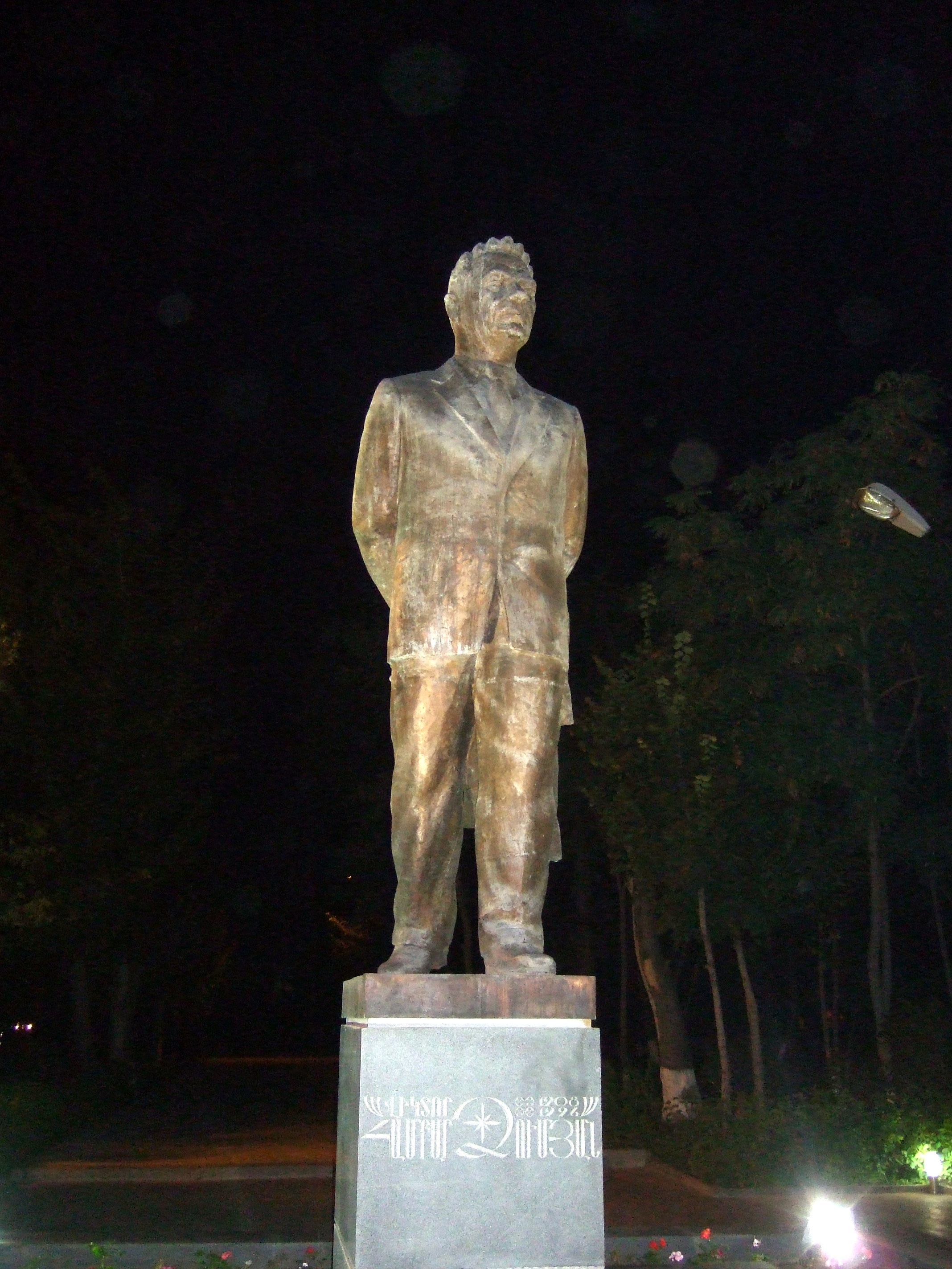 Statue of Viktor Hambardzumyan in the vicinity of Yerevan Observatory